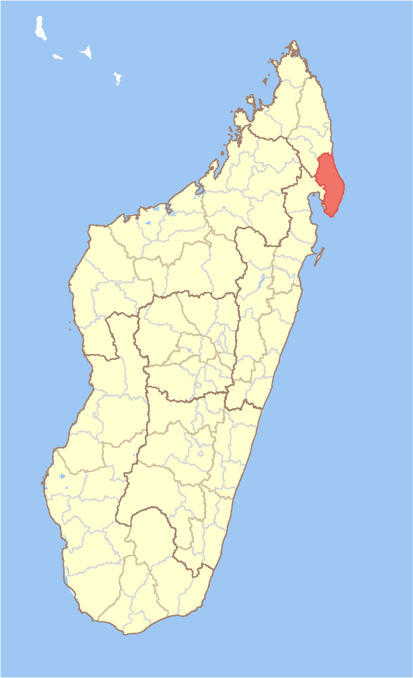 Map of Madagascar with Antalaha District highlighted.